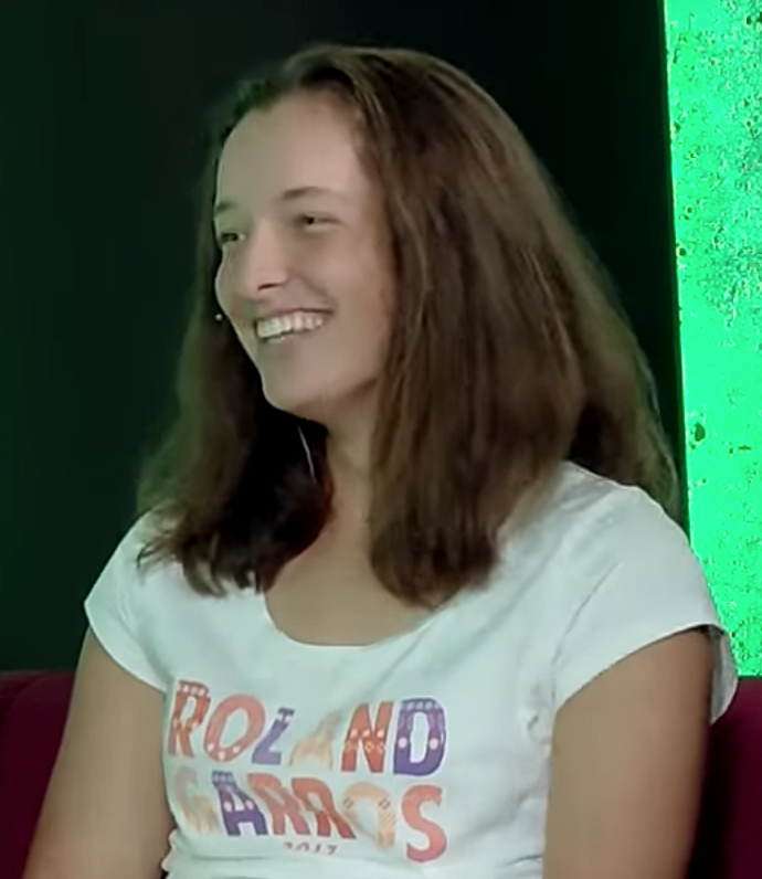 Iga Swiatek interviewed on Forhend Bekhend